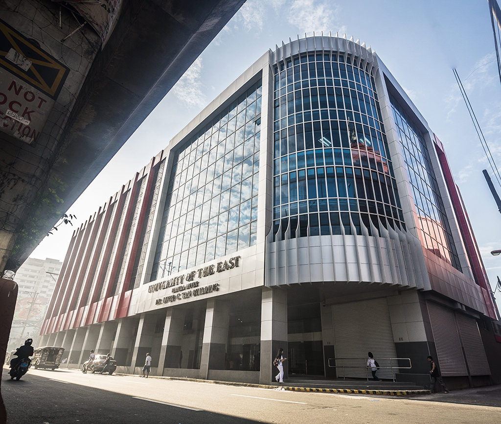 This is the UE Manila Annex (Dr. Lucio C. Tan Building), the new home of the UE College of Dentistry.